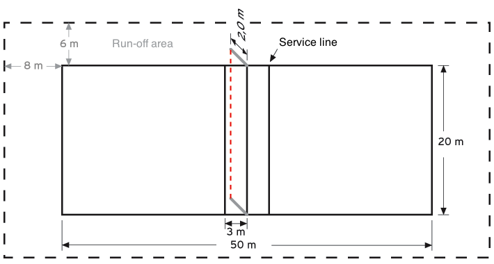 The dimensions of a standard outdoor fistball field